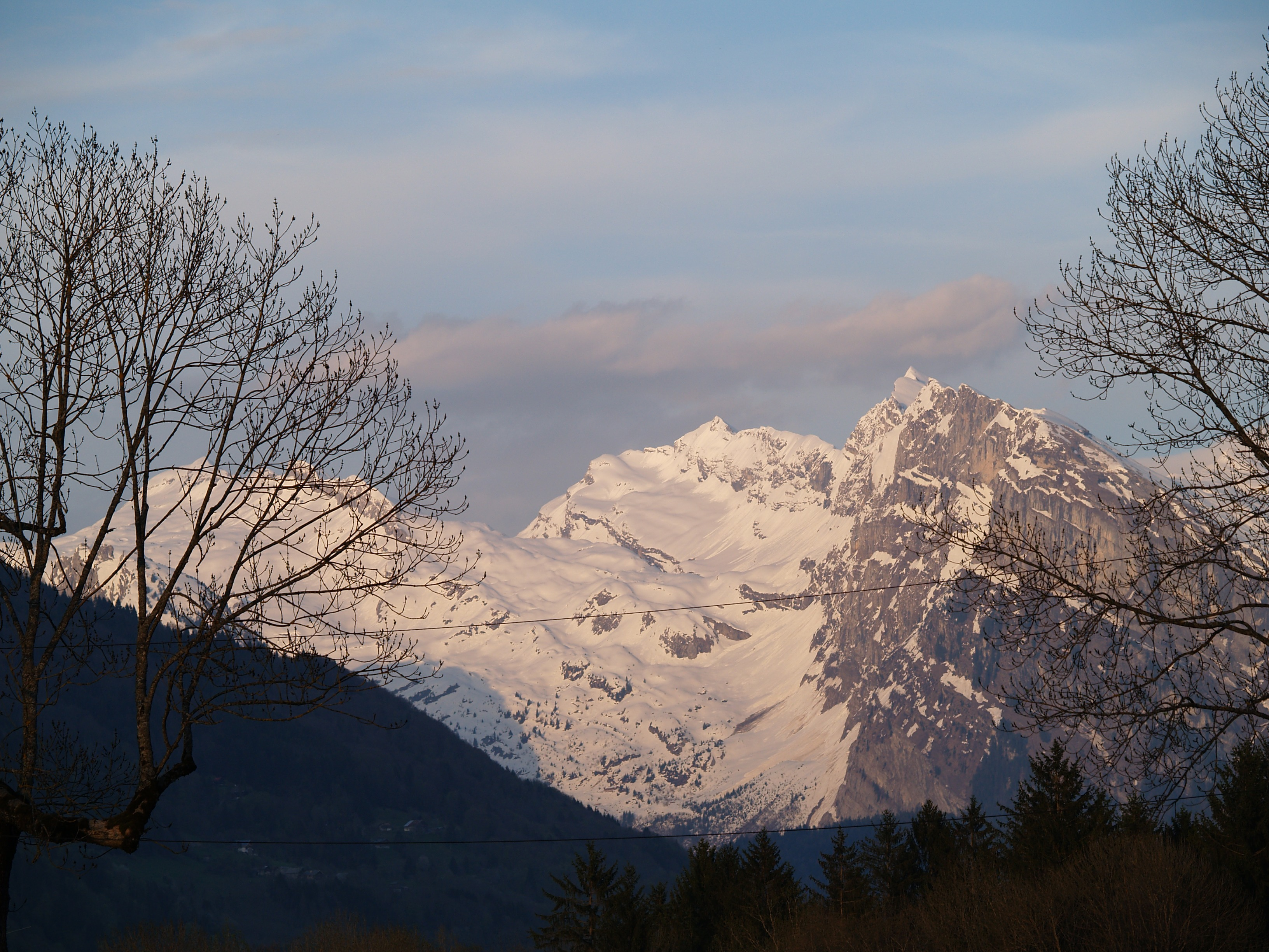 Massif du Giffre (Haute Savoie), viewed from the municipal campsite at Taninges.